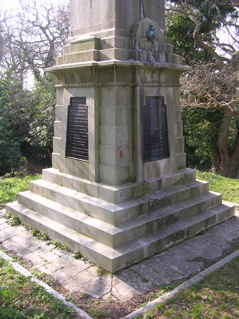 Base of the Walhampton Monument, east of Lymington. The Burrard Neale Monument or Walhampton Monument comprises a massive stone stepped plinth, surmounted by 75 foot high tapered obelisk. Each of the four faces of the base has a large iron plaque giving a fairly lengthy account of Sir Harry Burrard Neale's life in wildly varying type sizes. It was erected in 1840, to the memory of Sir Harry Burrard Neale BT. G.C.B., G.C.M.G., M.P. for Lymington in 1832. Many have seen the top of this obelisk sticking out of the trees on the east side of the Lymington river, the base is found near a right-angle in Monument Lane. In this picture you can see the results of copper leaching out of the bronze armorial above the iron plaque on eastern face.